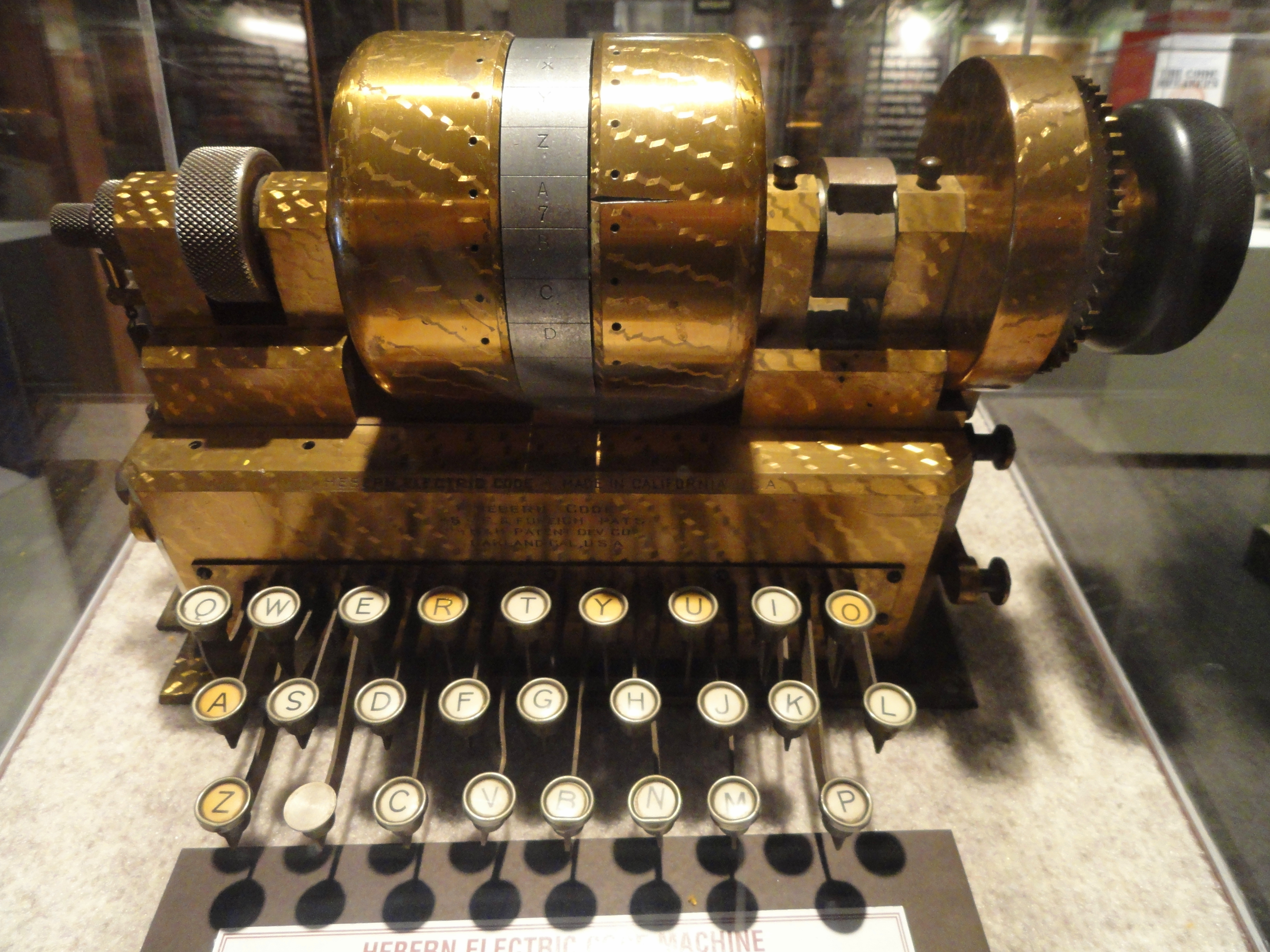 Exhibit in the National Cryptologic Museum, Fort Meade, Maryland, USA. All items in this museum are unclassified; items created by the United States Government are not subject to copyright restrictions.